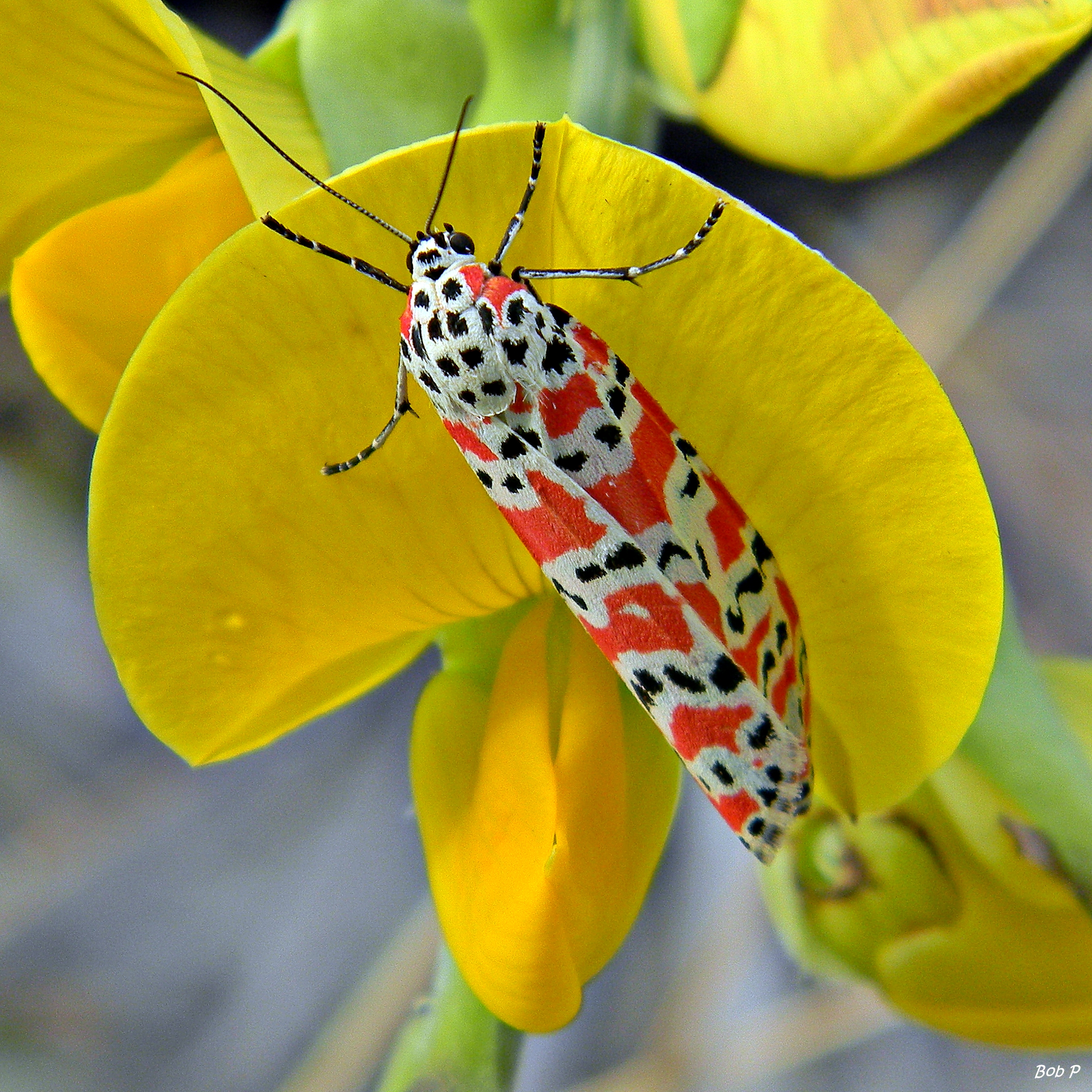 A day flying Bella moth (Utetheisa ornatrix) seeks shelter on a rattlebox blossom (Crotalaria sp.) during a brief sun shower at Juno Dunes Natural Area. Pyrrolizidine alkaloids in the Crotalaria plants and seeds end up in the larva and adult Bella moth, offering them some protection from predators. (Maybe Crotalaria retusa).